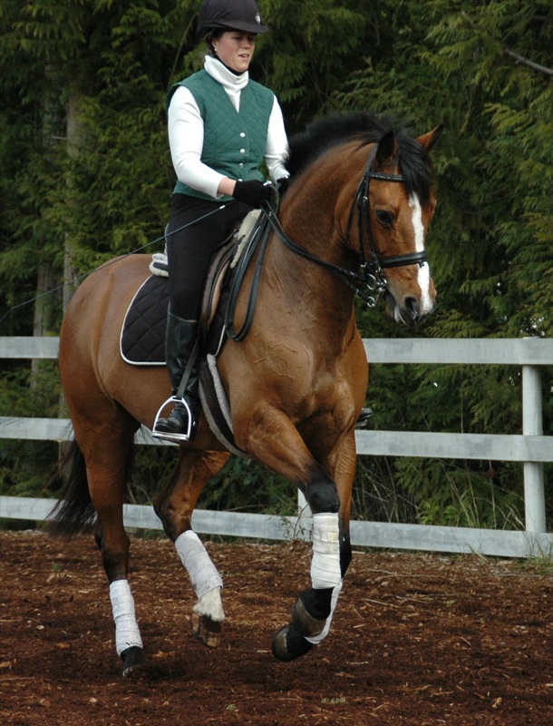 Canadian paralympic rider, Karen Brain, schooling her horse VDL Odette (Ahorn x Finette - Zuidhorn).